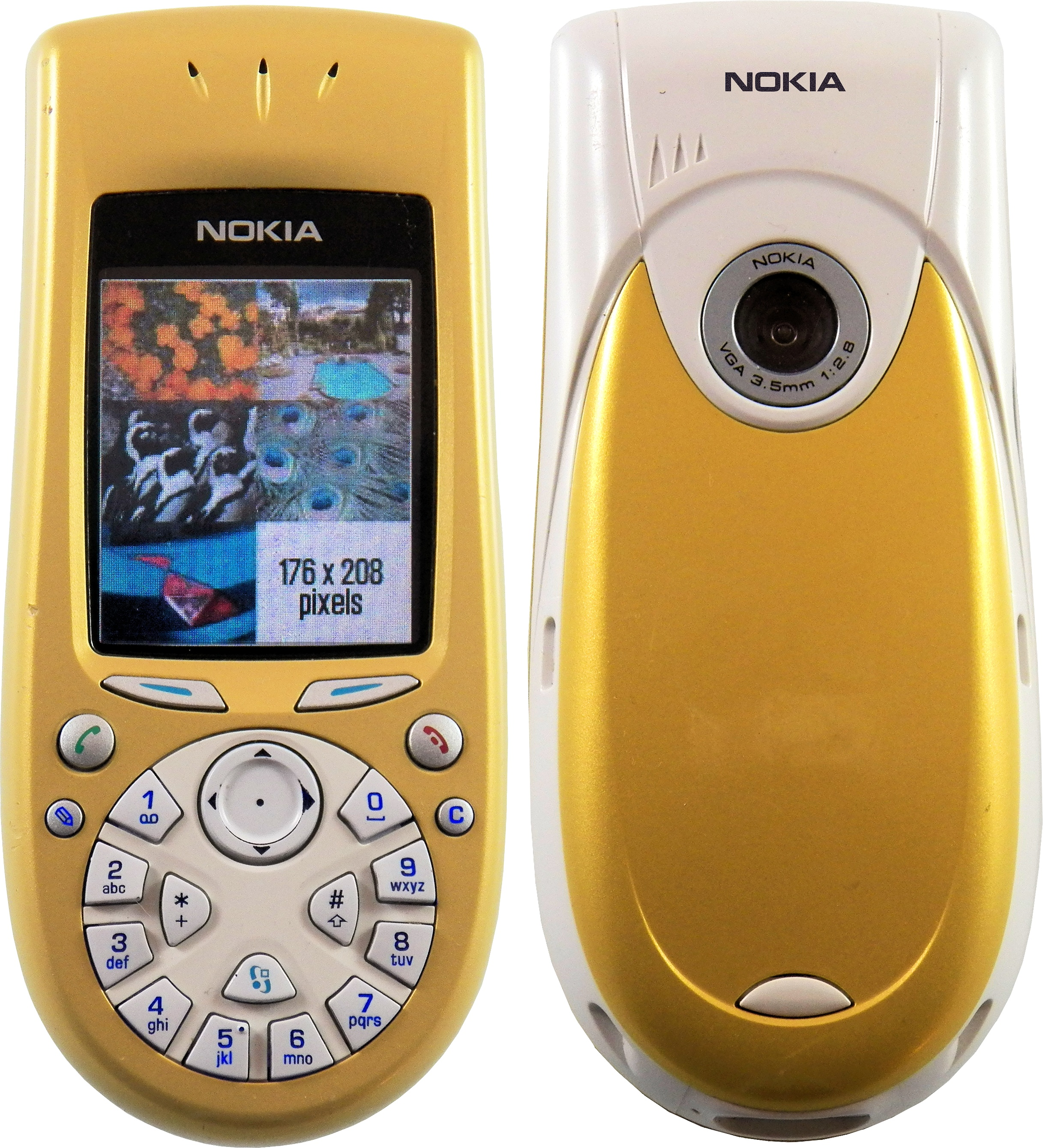 Front and back shots of the Nokia 3650, launched in 2002.